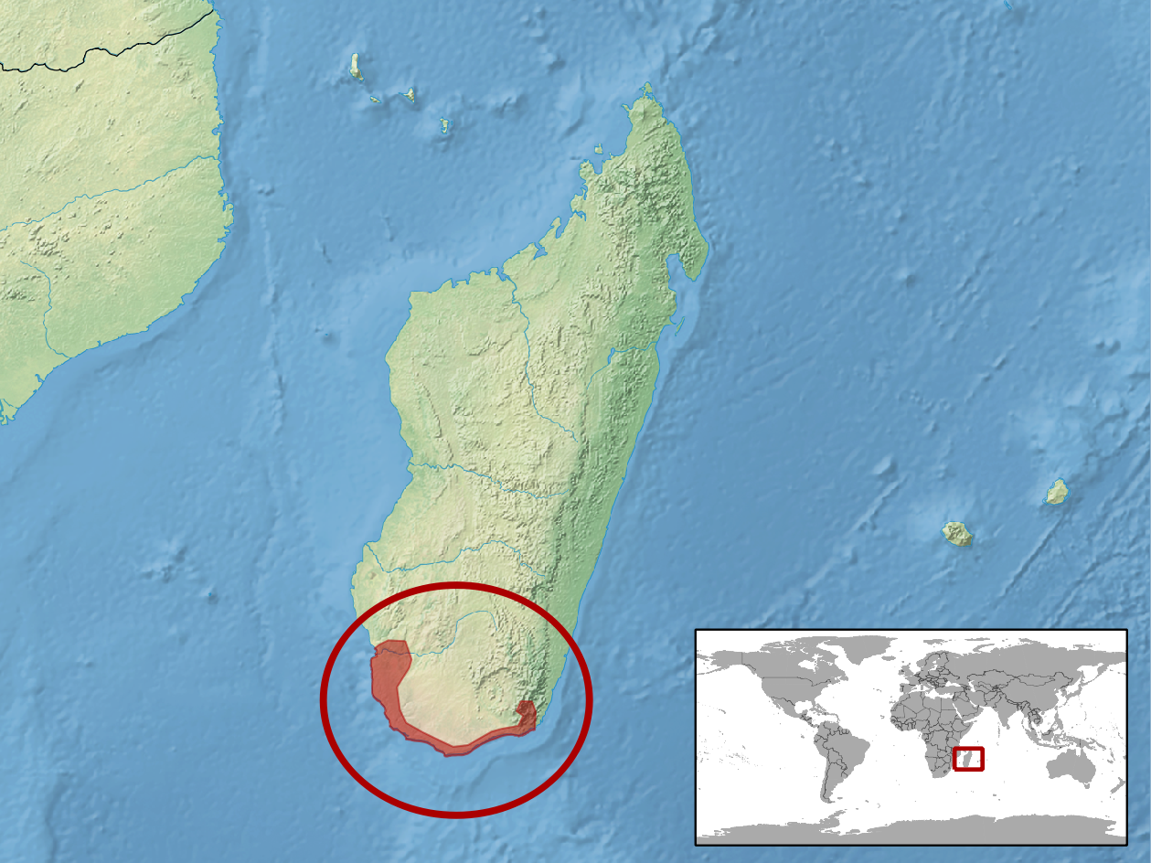 geographic distribution of Paroedura androyensis (Native: Madagascar)